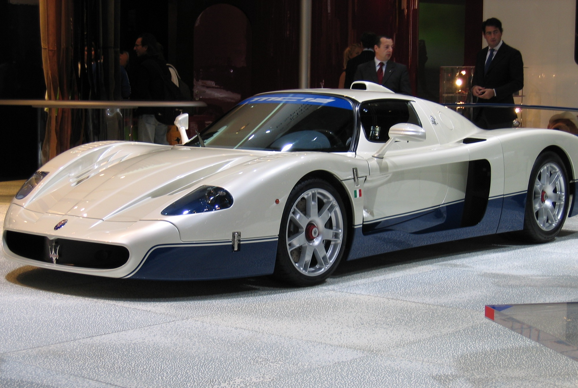 I did not take this photograph, a user on the Dutch Wikipedia (Cars en travel) took the photo and uploaded it to commons as Image:Maserati MC12 2.JPG. The work was licenced under the GNU licence which permits modification. I cropped the original removing an obstruction on the left of the image and some unneccessary edges.